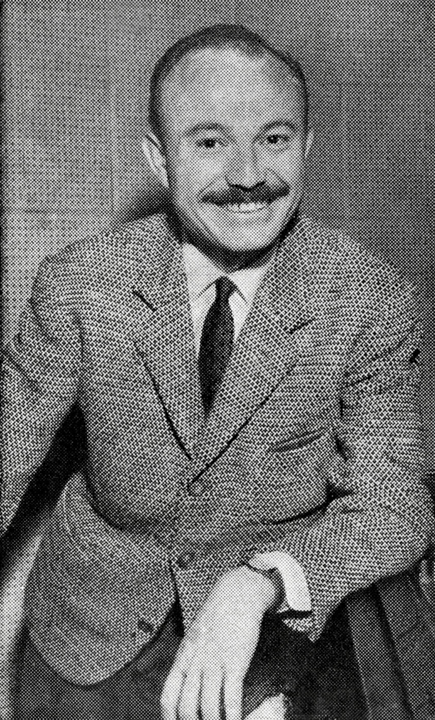 photo from Radiocorriere (1951)